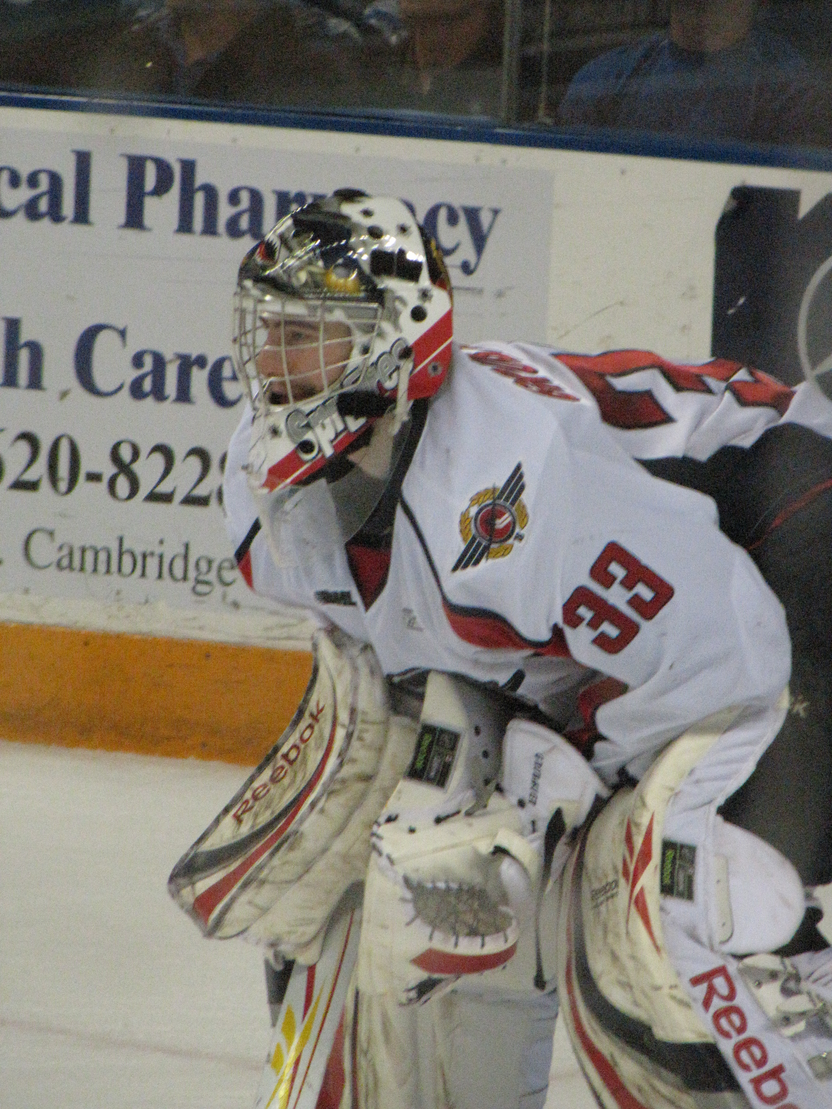 Philipp Grubauer of the Windsor Spitfires